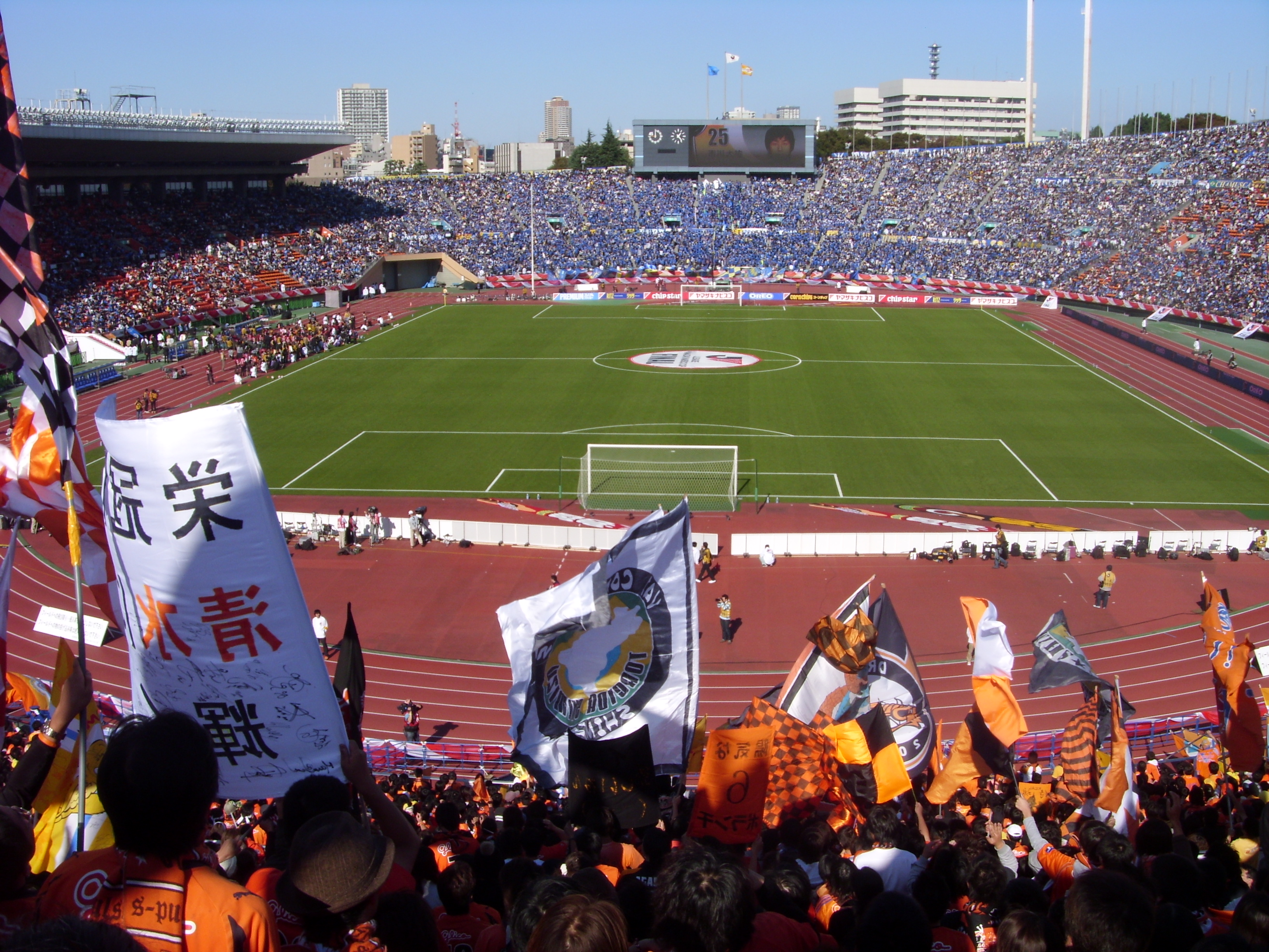 Nabisco Cup Final 2008 November 1st 2008